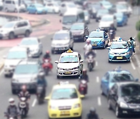 2011-2014 Proton Saga FLX taxi in Jakarta, Indonesia.Designed & Assembled in Malaysia Note : Also pictured are two Toyota Vios / Limo taxis.